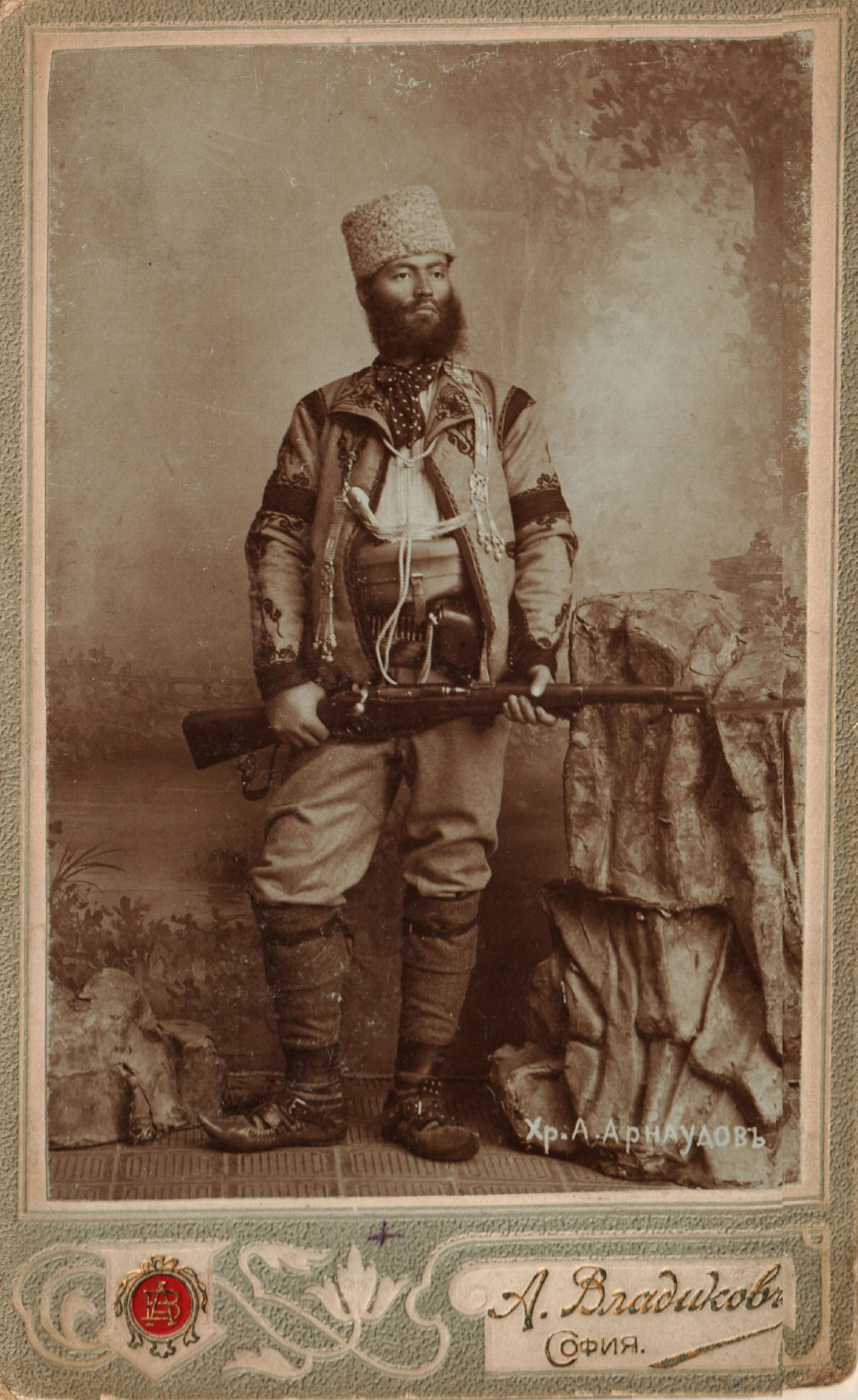 Hristo Arnaudov